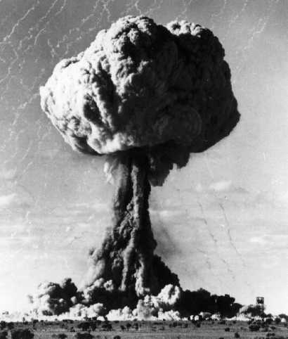 The first test shot conducted at the One Tree site during operation Buffalo, a test of the Red Beard tactical bomb.